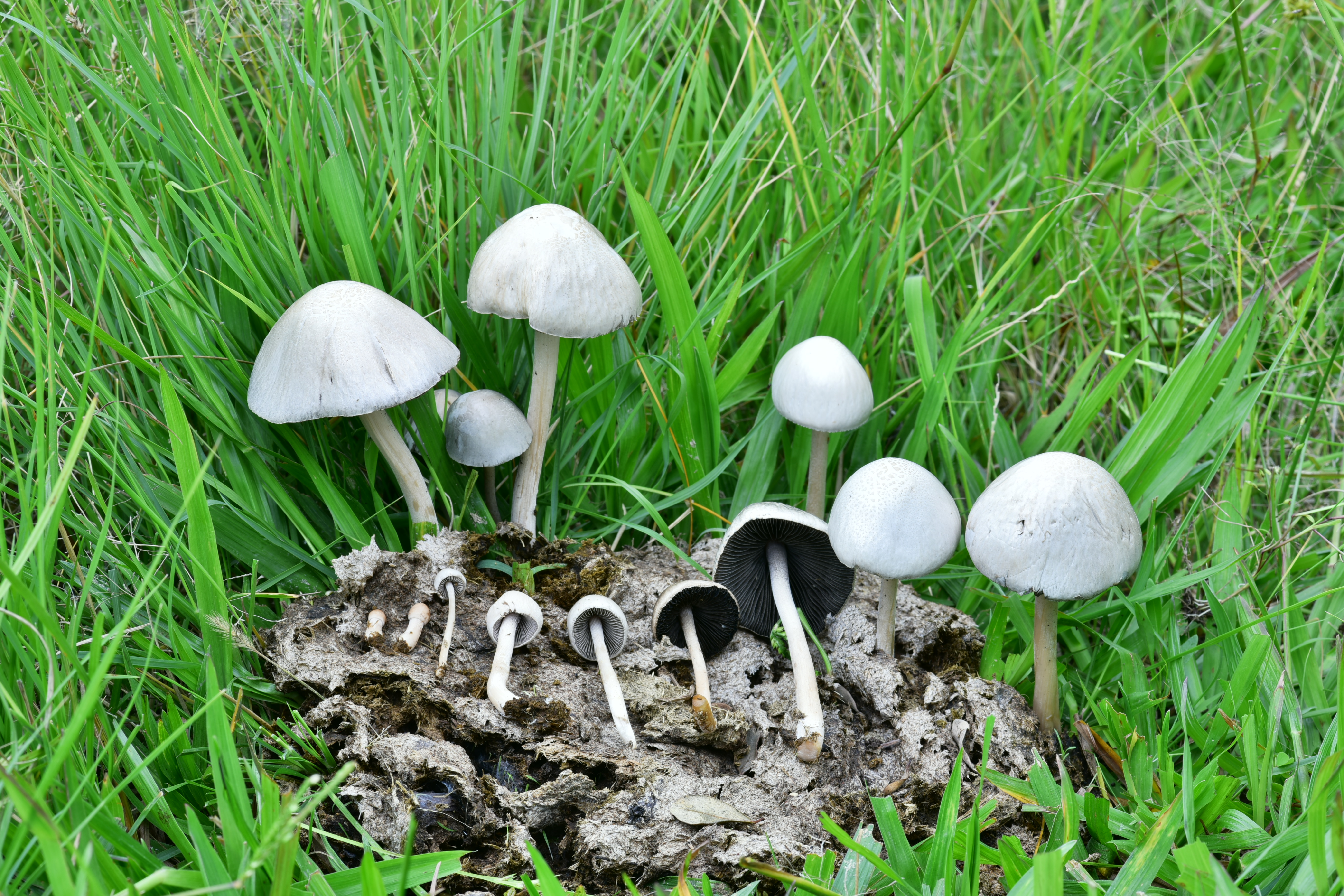 Panaeolus antillarum from Maravatio, Michoacan, Mexico.